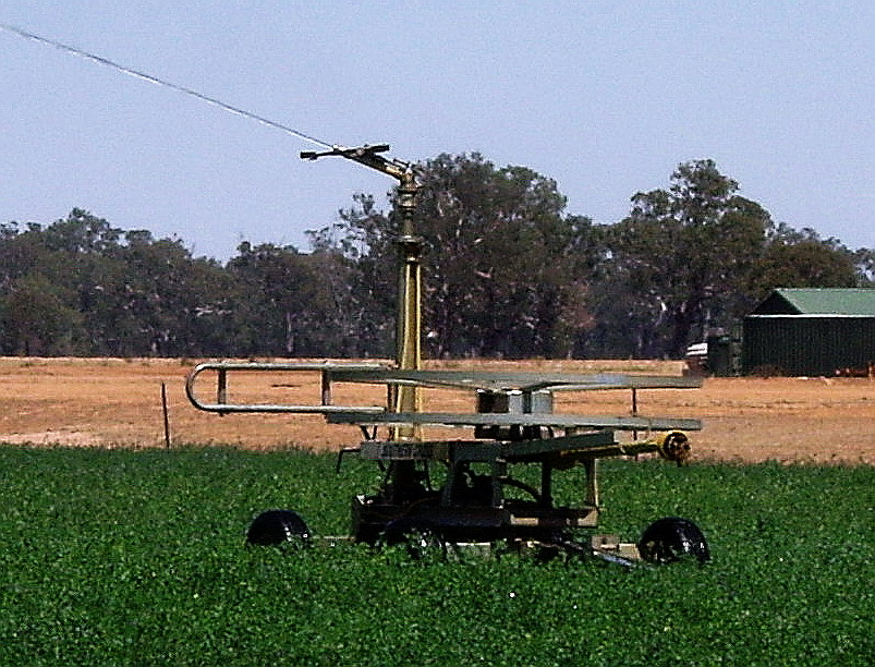 Impact (Knocker) Irrigation at Millwood - close up